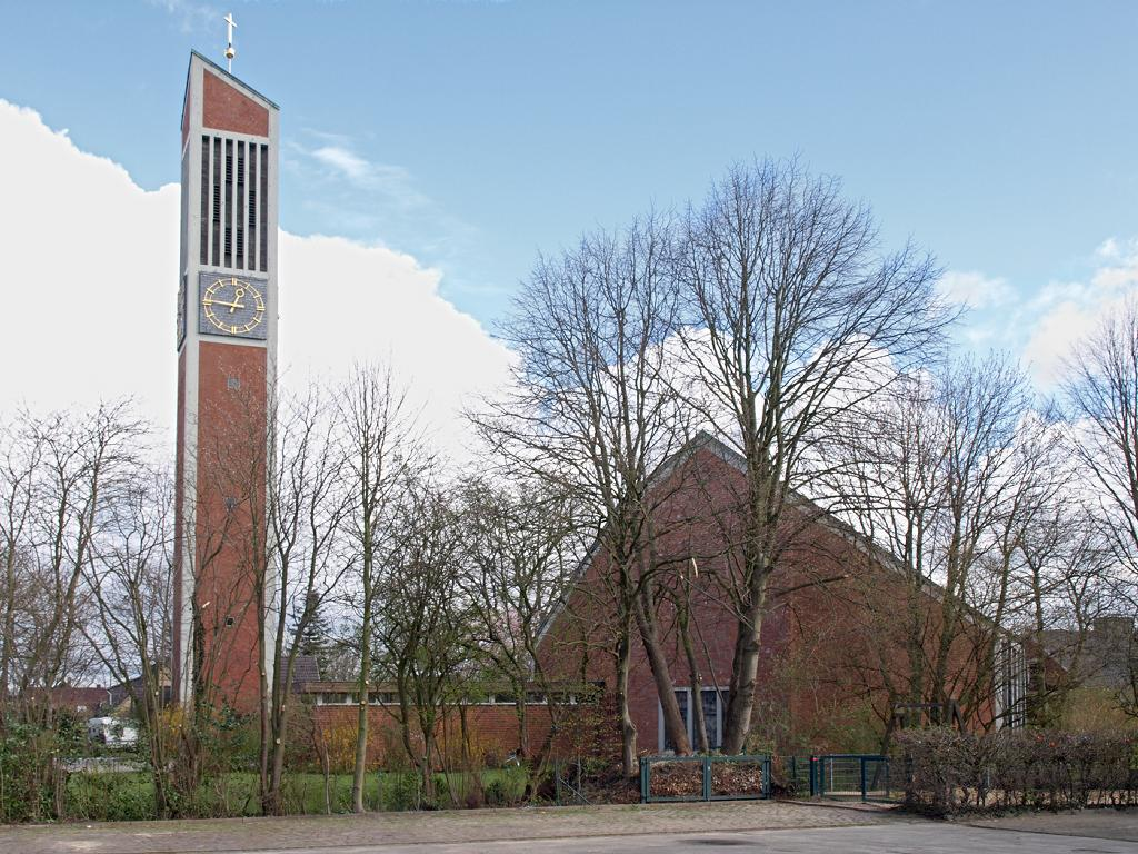 Elmshorn (Slesvic-Holstein, Germany), church "Thomaskiche" (ev.luth.), photo 2008